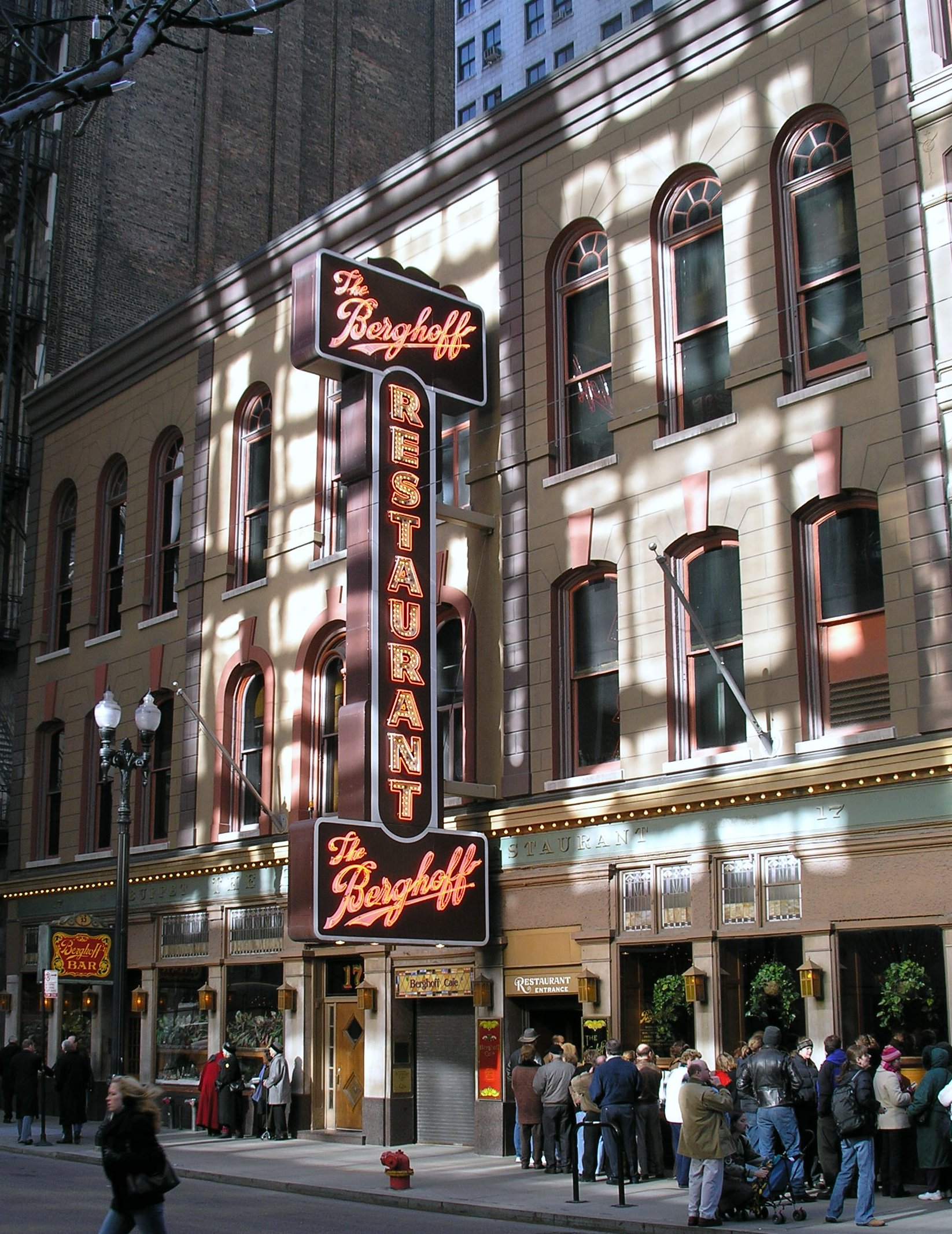 The Berghoff Restaurant, Chicago. A block-line line of patrons snakes down Adams Street and around the corner onto Dearborn Street, waiting entry to the restaurant which is slated to close in February, 2006.